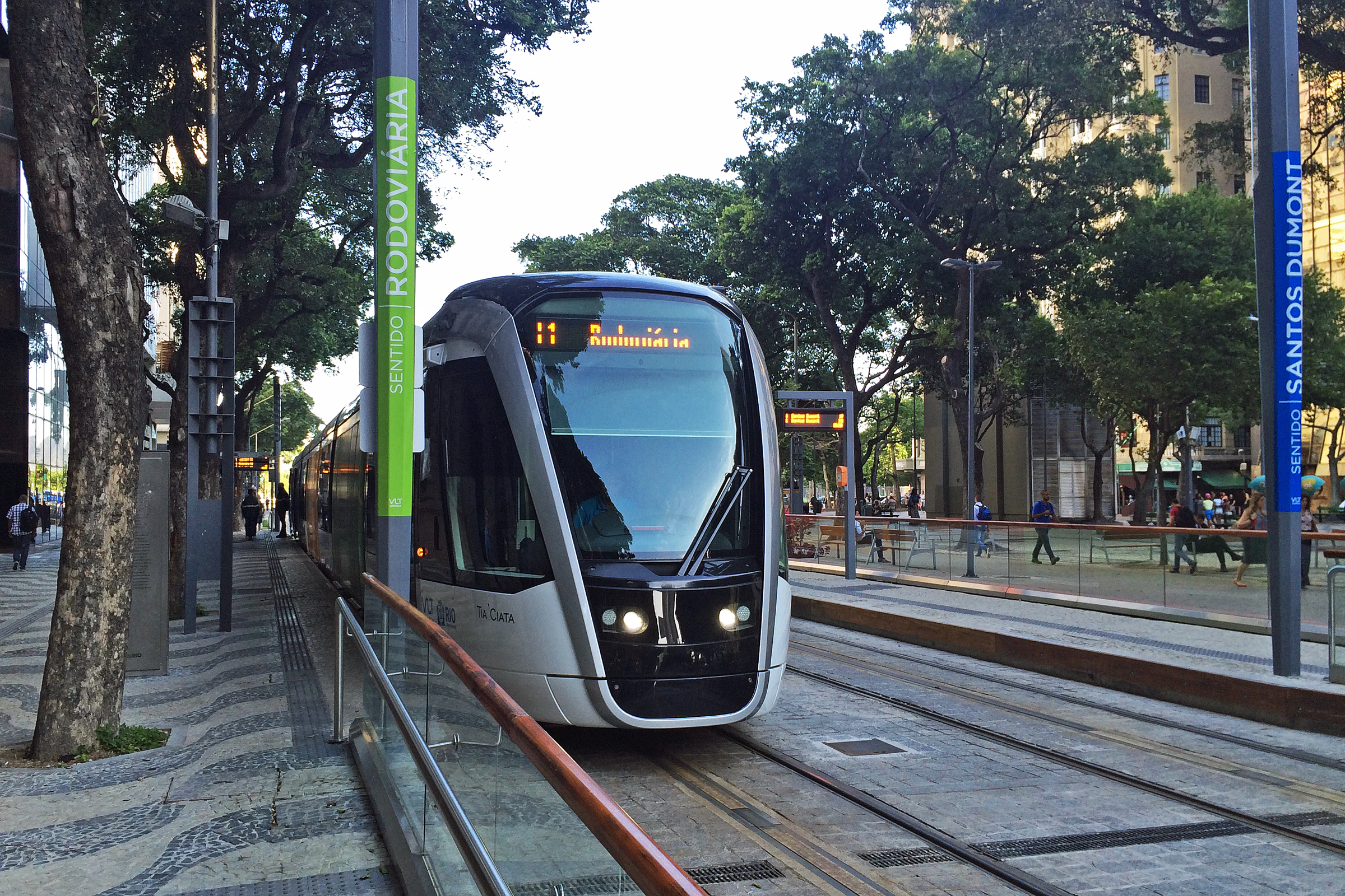 VLT Carioca, Rio de Janeiro. Tram at Cinelândia station.